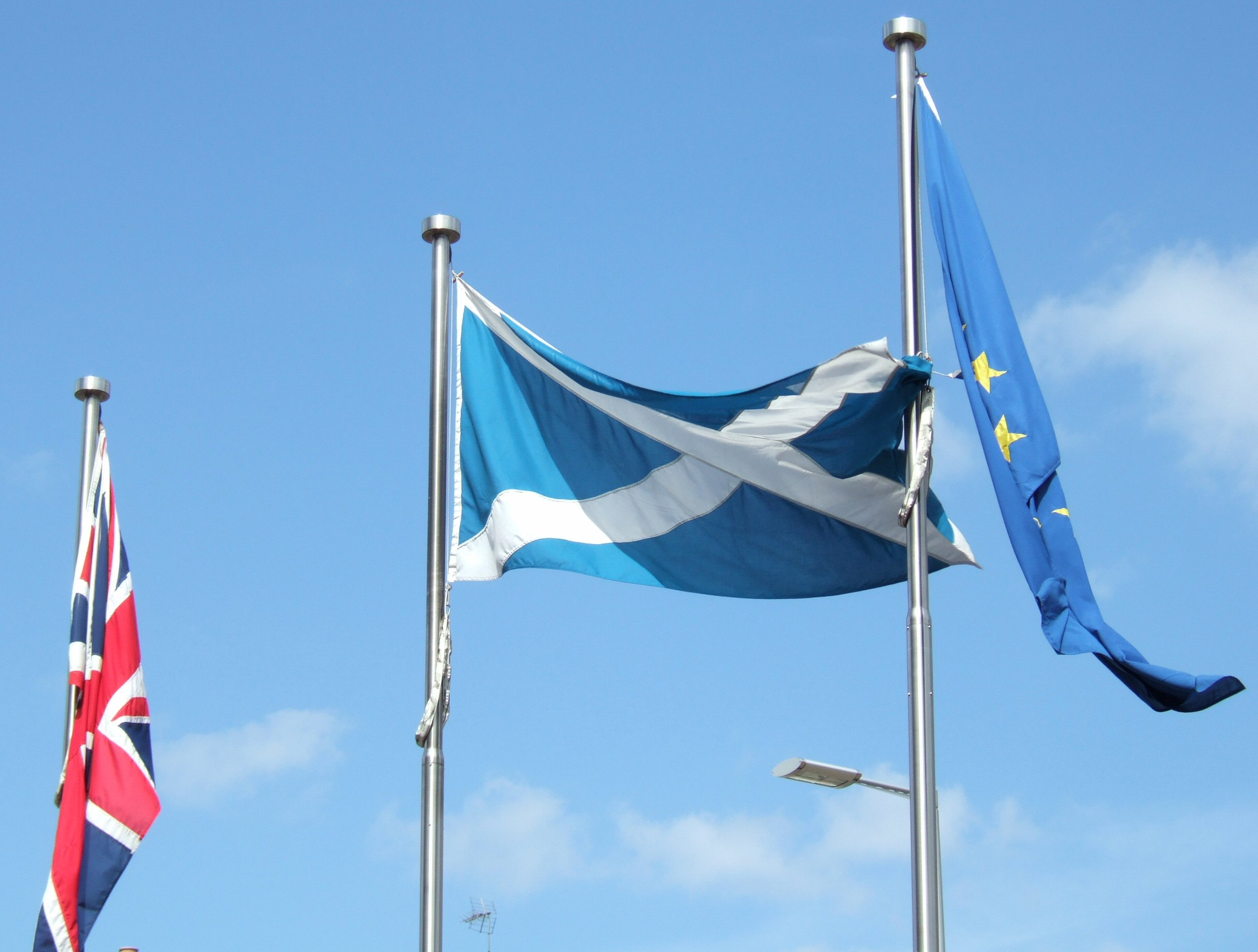 Flags outside the Scottish Parliament in Edinburgh, Scotland. Left to right: British flag, Scottish flag, European Union flag